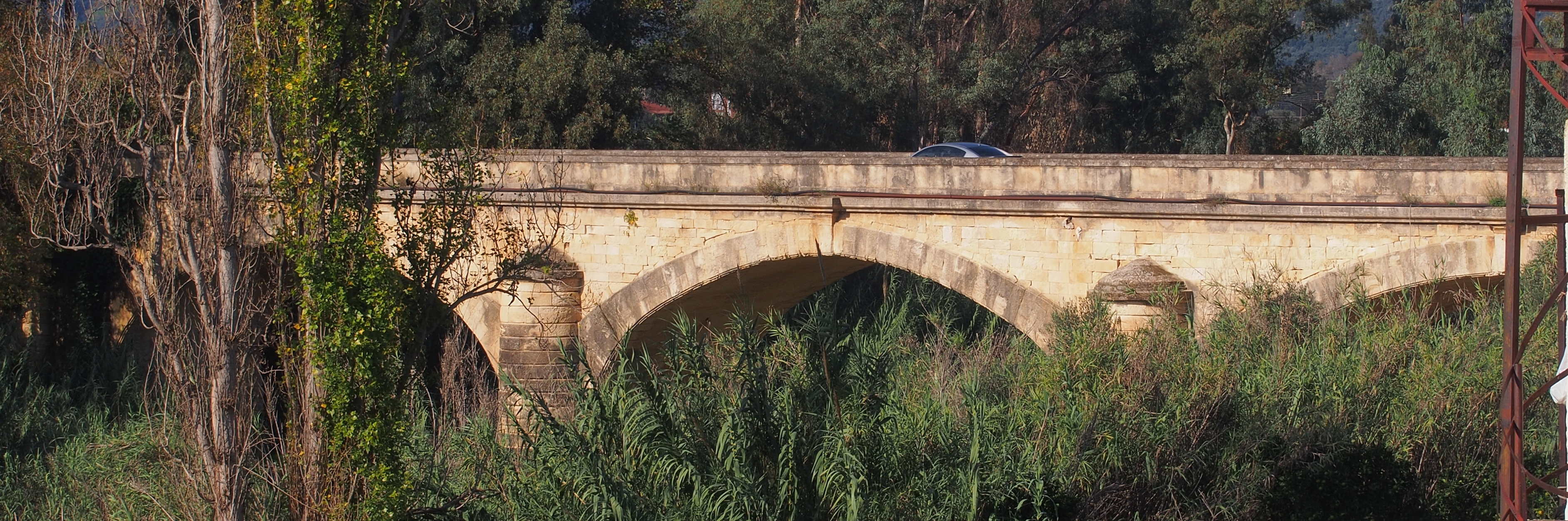 The bridge of Alikianos, over Keritis river. The bridge was built in 1908 and was the place were 118 villagers were excecuted by the Nazis in 1941. Now it is a monument.